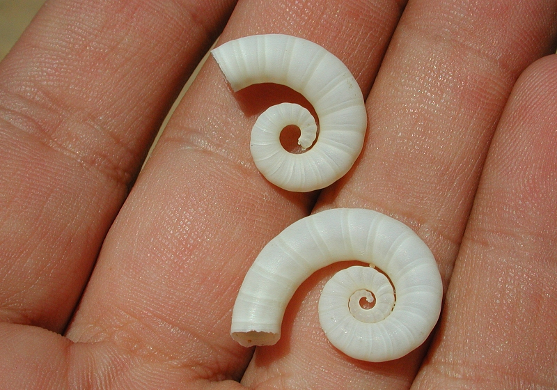 Spirula spirula, Mission Beach, National Park, Queensland, Australia, 2002